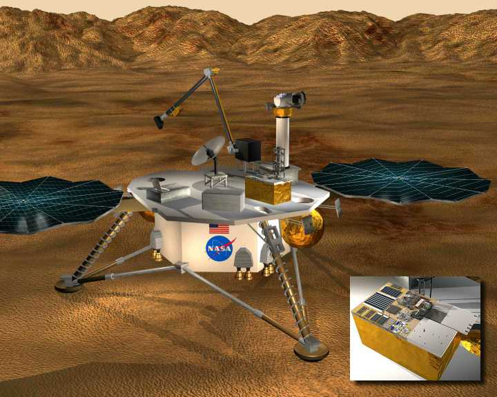 Artist's conception of the Mars-2001 Surveyor Lander spacecraft, with an inset box showing the detail of the MIP (Mars ISPP Precursor) experiment. Image courtesy of NASA Glenn Research Center.